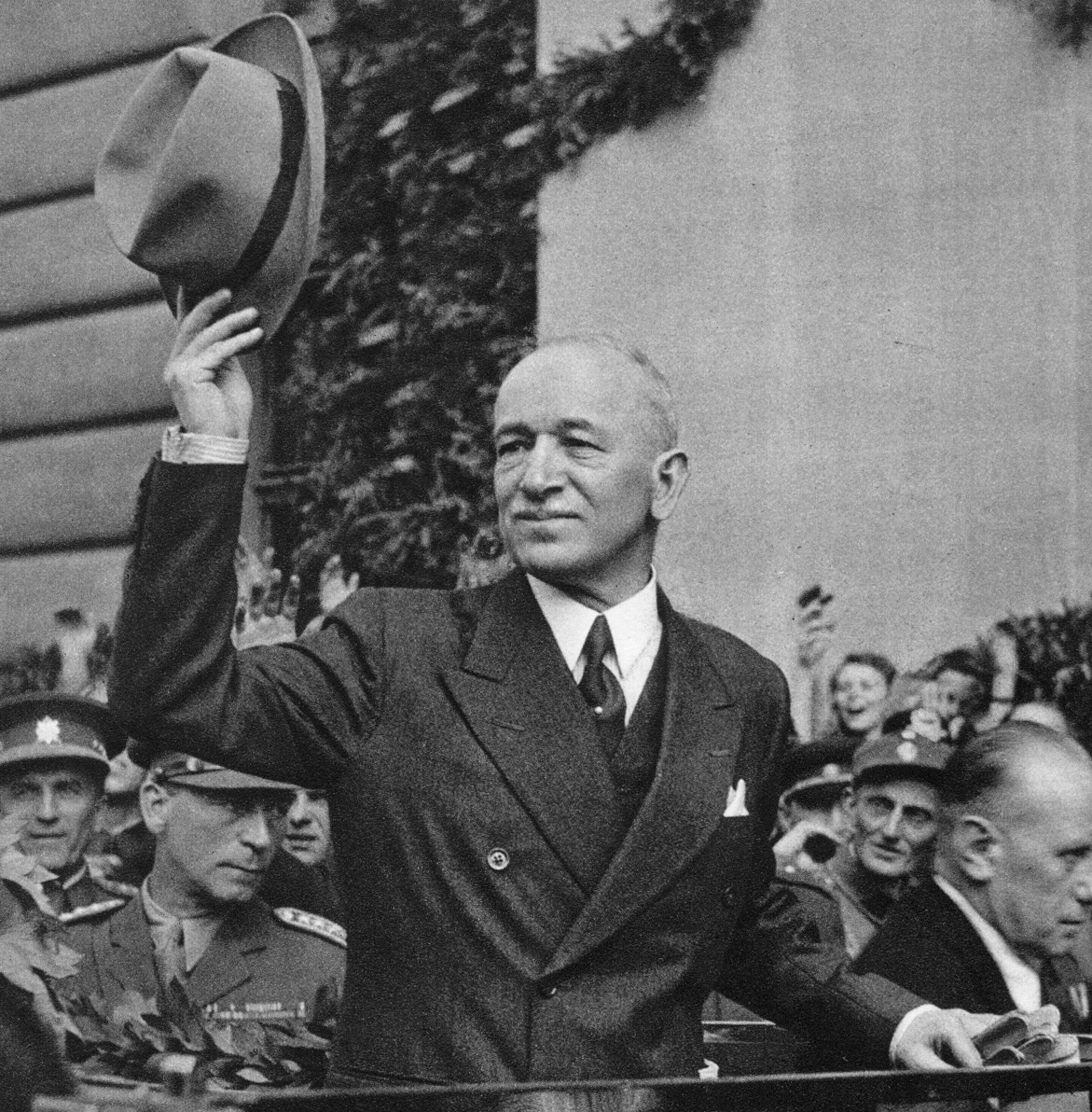 President Edvard Beneš' return to Prague, 16 May 1945